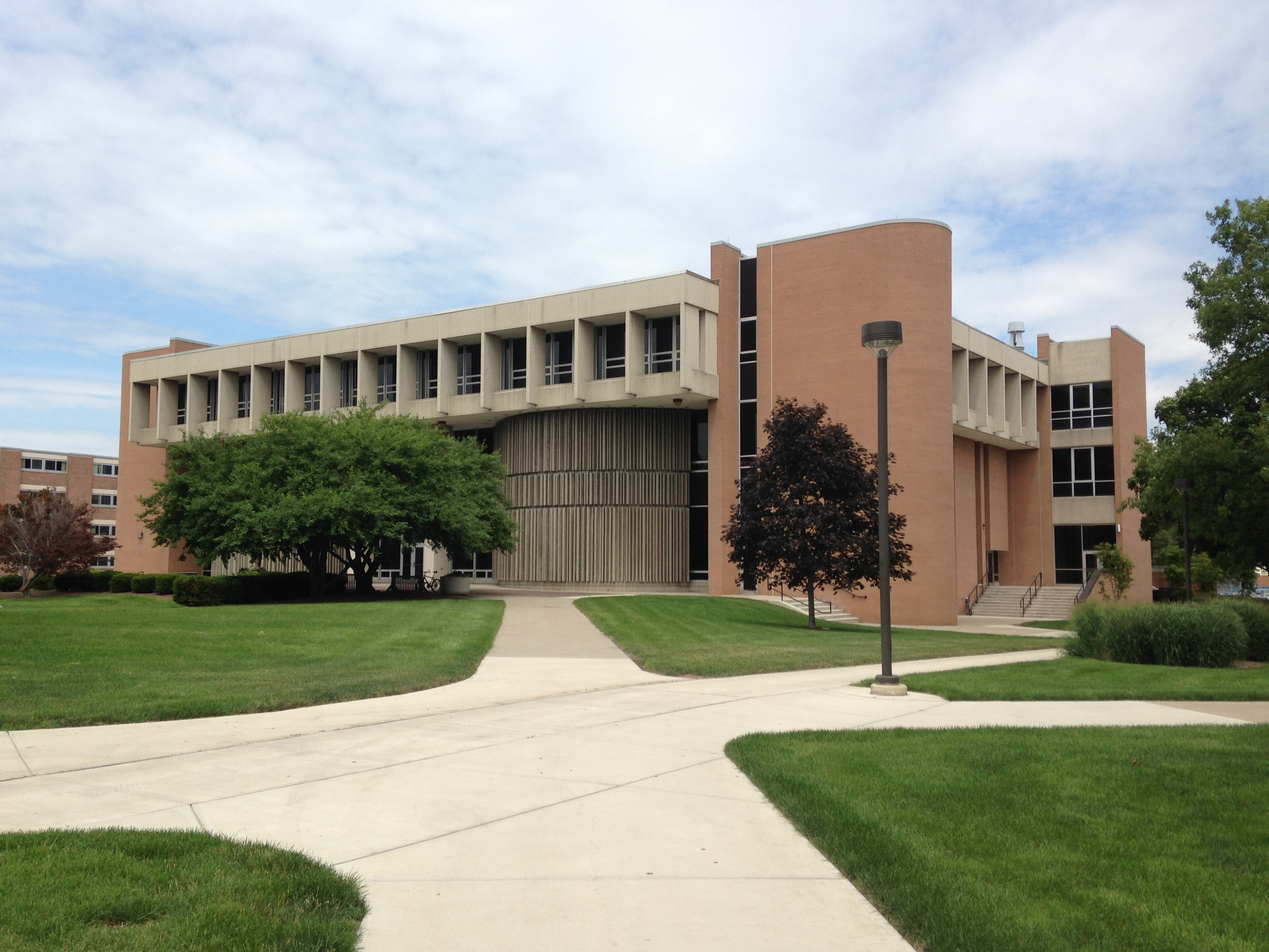 Math-Sciences building at BGSU.